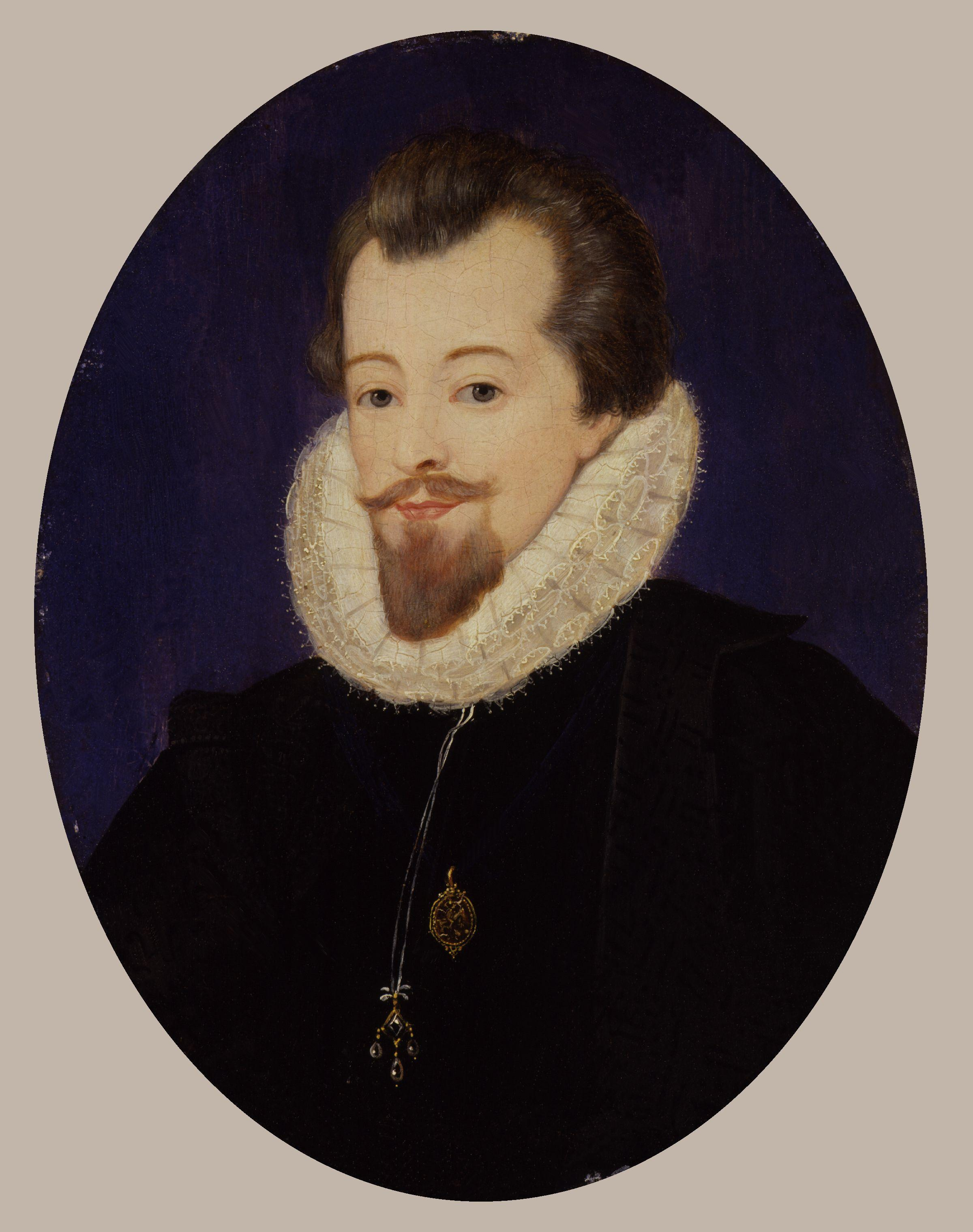 Robert Cecil was born around 1563 as the son of William Cecil, who was queen Elizabeth’s primary advisor. Robert followed in his fathers footsteps. He became Secretary of State under Elizabeth and stayed on under her successor James I. He also became Lord Privy Seal and Lord High Treasurer. He died in 1612.